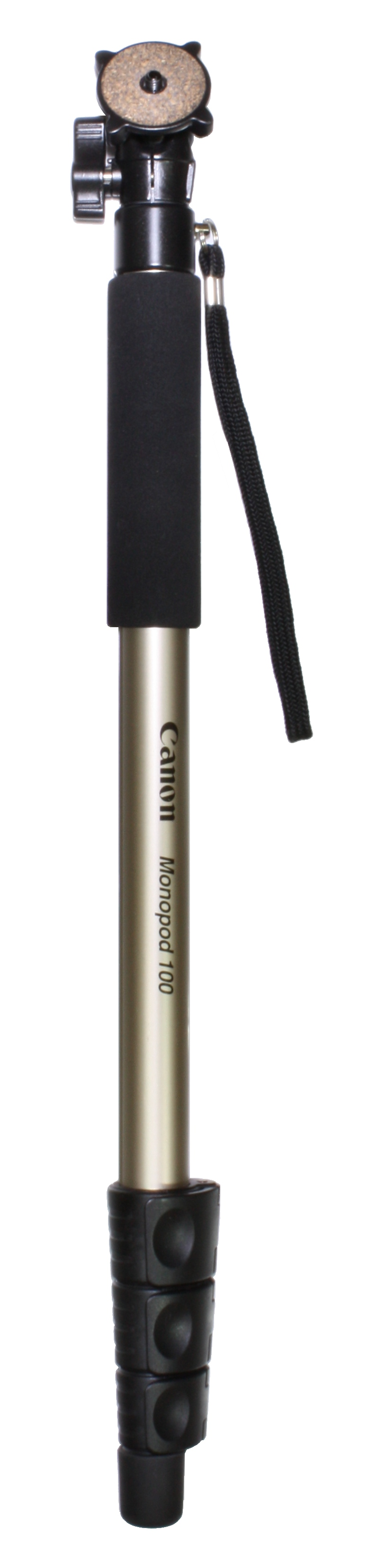 Monopod Canon